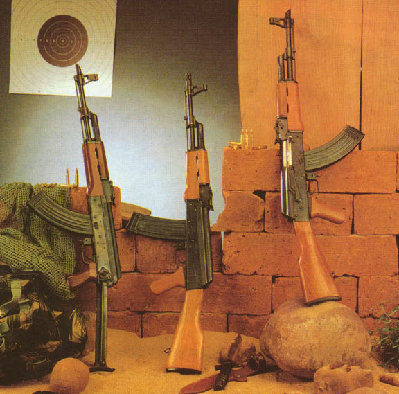 I found this picture at " I credit the National War College.